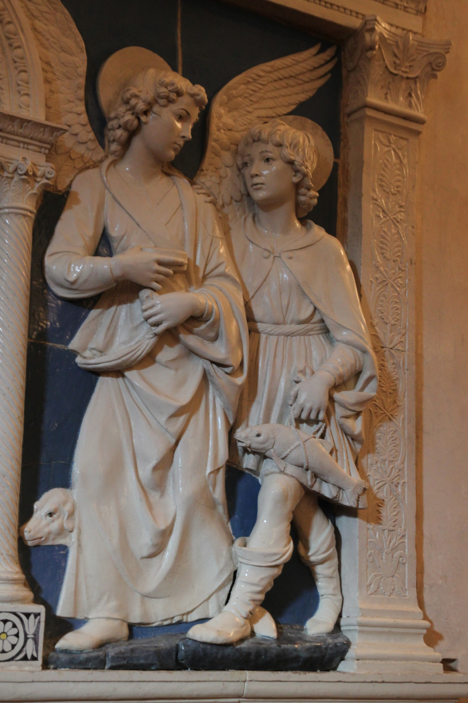 altar dossal (detail) in glazed terracotta. Attributed to Andrea della Robbia, circa 1475